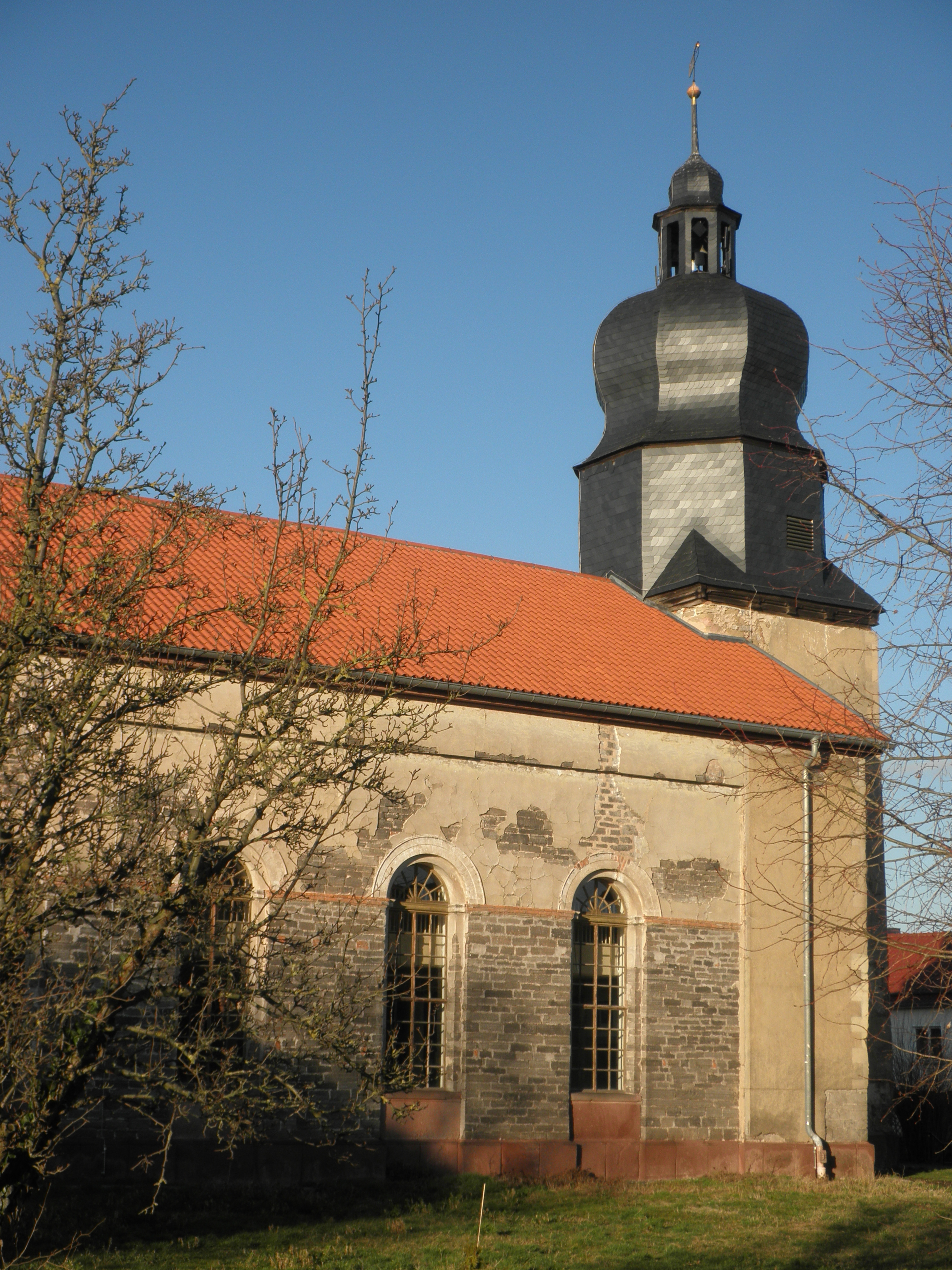 Church in Urbach (Thüringen) in Thuringia